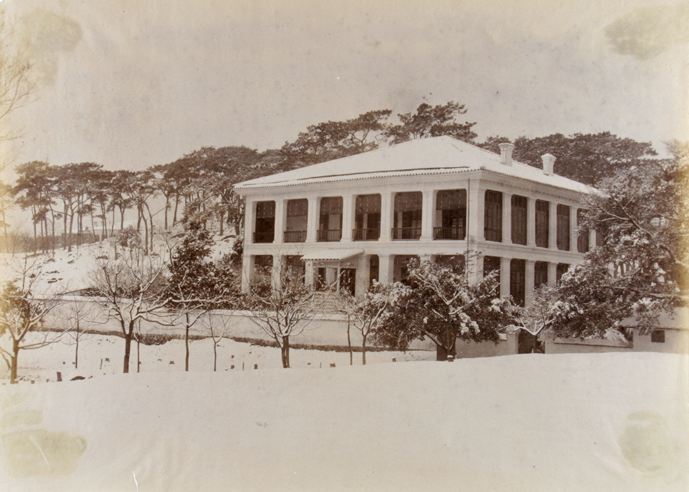 'Tai Hing' being the home of the Oswalds.